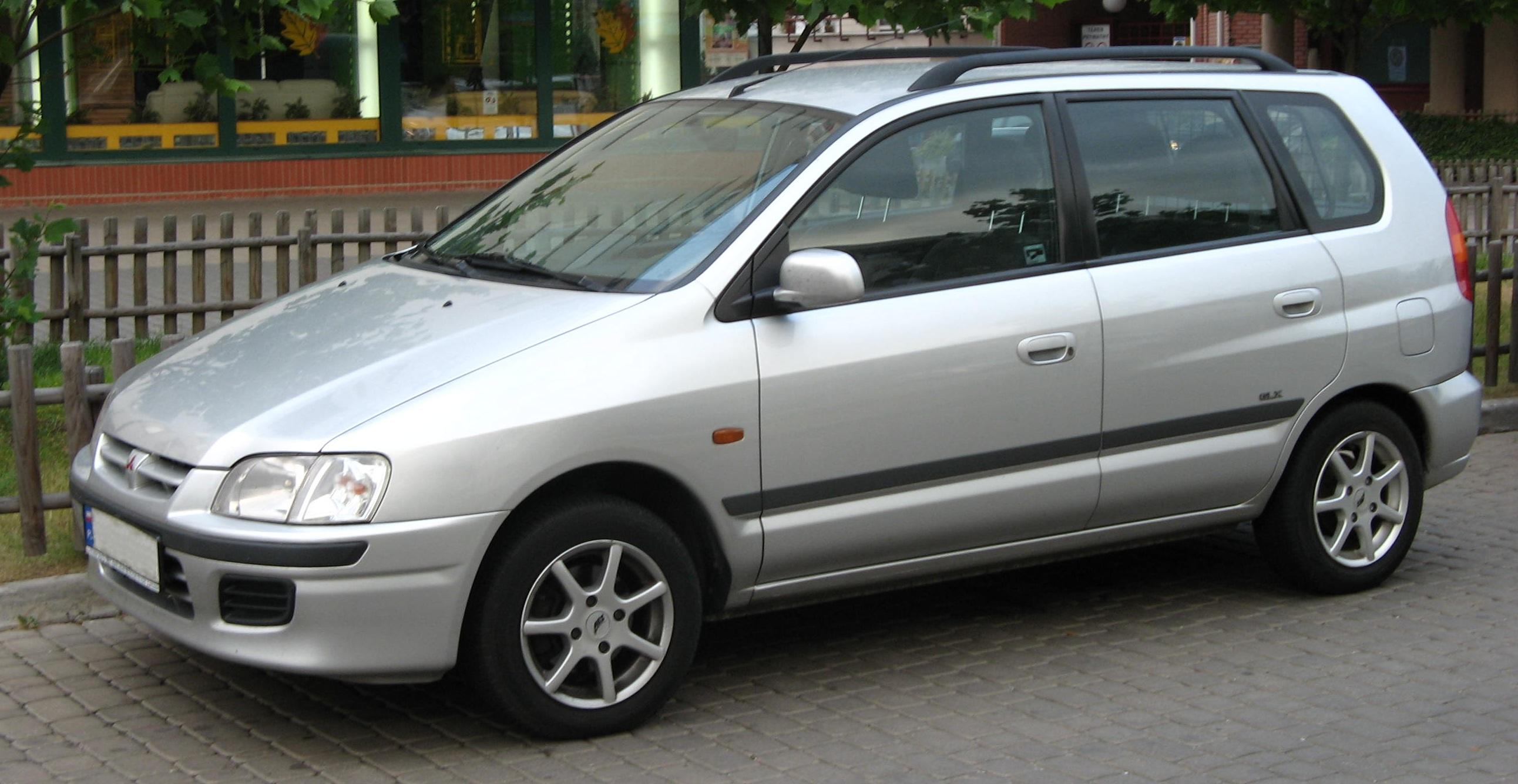 Mitsubishi Space Star, silver, photographed in Warsaw